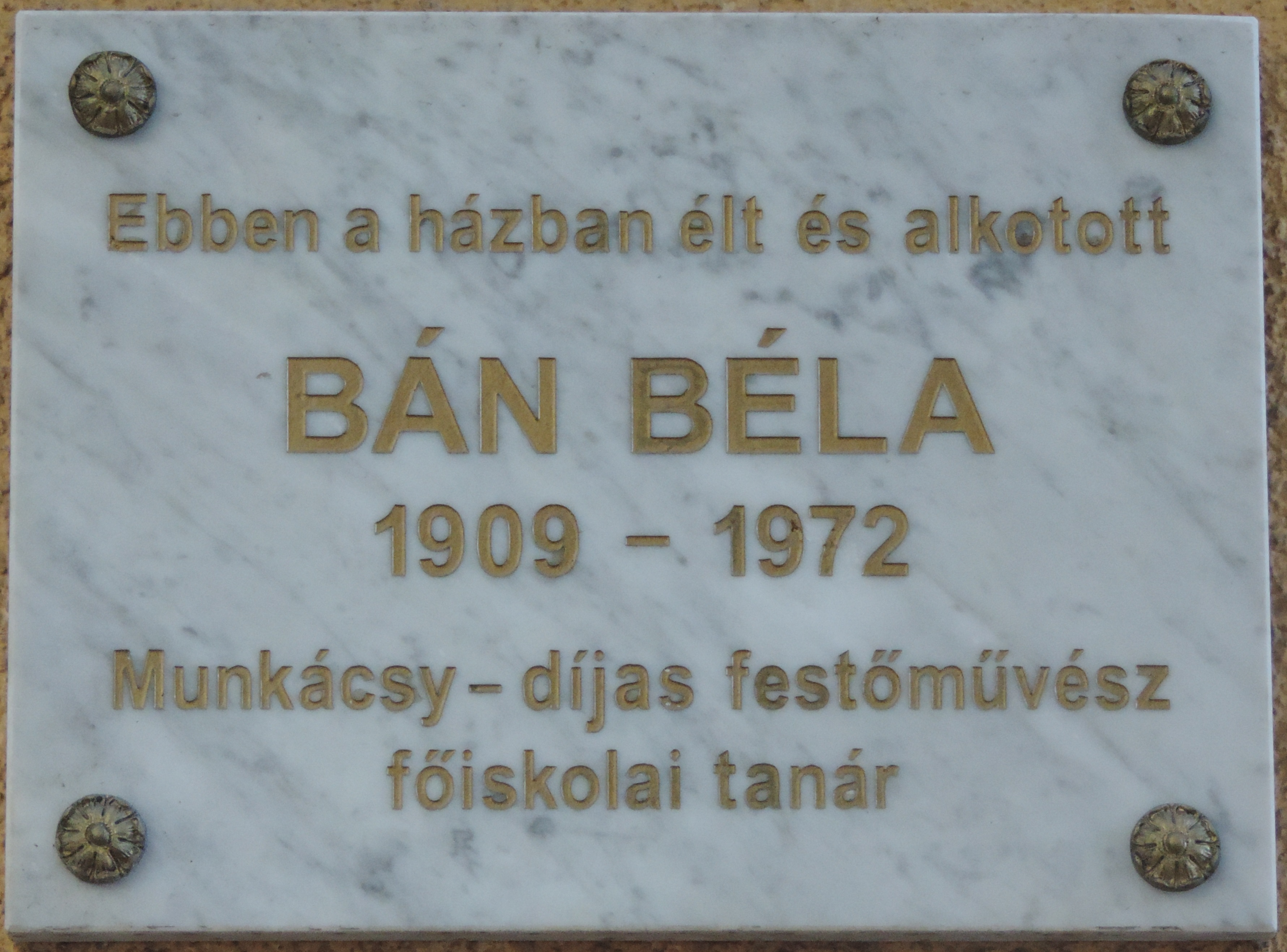 Commemorative plaque of Béla Bán (Budapest District II, Margit körút No 64/b)